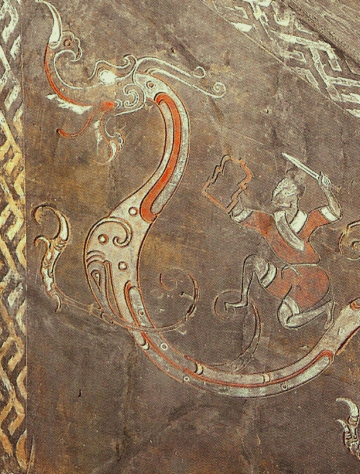 Triangular hollow tomb tile with painted dragon and armed warrior design. From the Chinese Western Han Dynasty, dated to the 1st century BC. Found in Luoyang, Henan Province, China. Made of gray earthenware with red, white, green, and blue polychrome. Now featured in the Royal Ontario Museum.